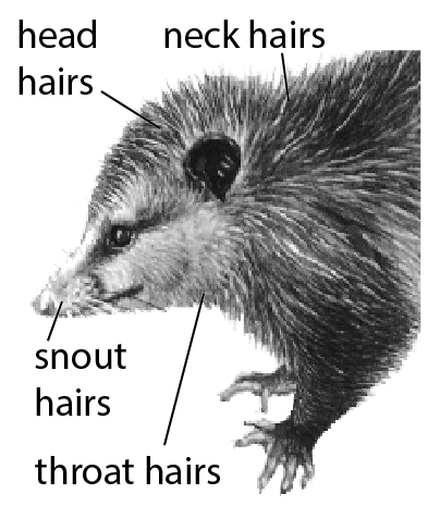 Standard Event System character depiction